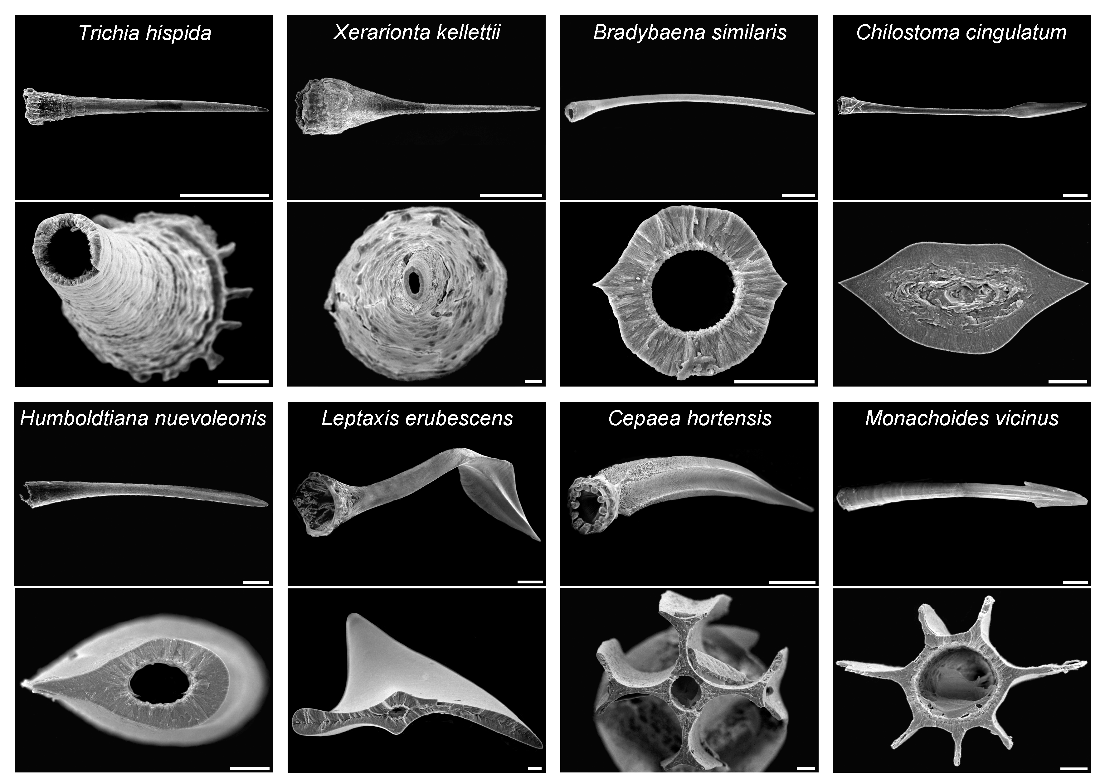 Scanning electron microscopic (SEM) images of various love-darts. Upper image is love dart from side view while the measure is 500 μm (0.5 mm). Lower image is cross-section while the measure is 50 μm. upper row: Trichia hispida Xerarionta kellettii Bradybaena similaris Chilostoma cingulatum lower row: Humboldtiana nuevoleonis Leptaxis erubescens Cepaea hortensis Monachoides vicinus